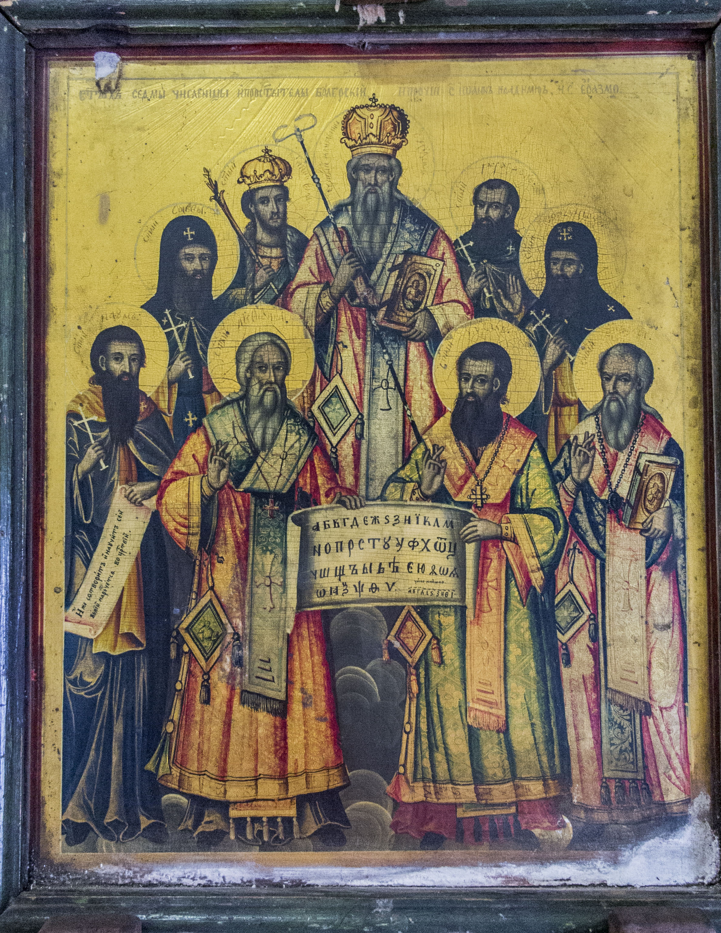 The Seven Saint and Saint John Vladimir and Saint Erasmus Icon